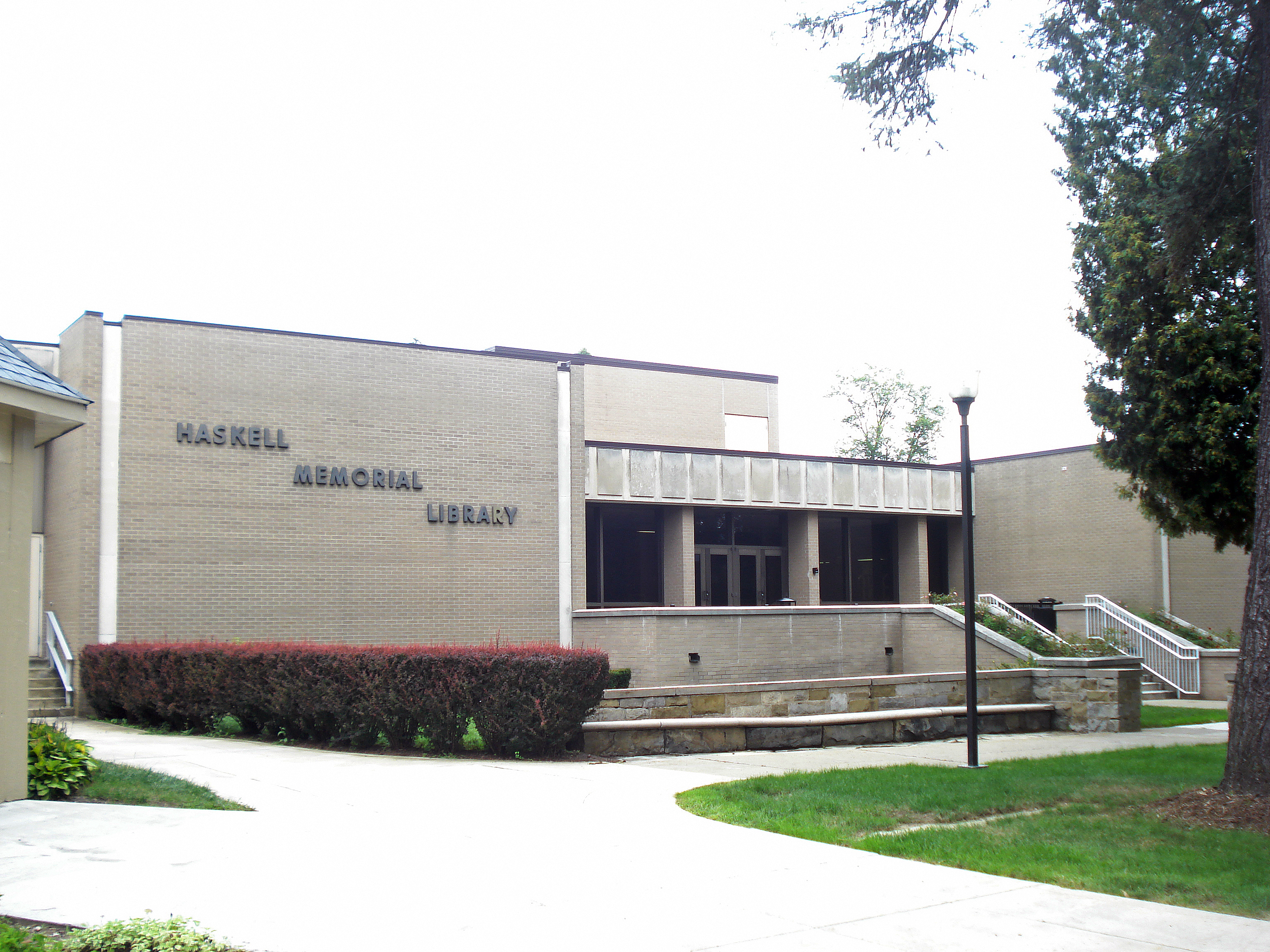 The main library at Pitt Titusville